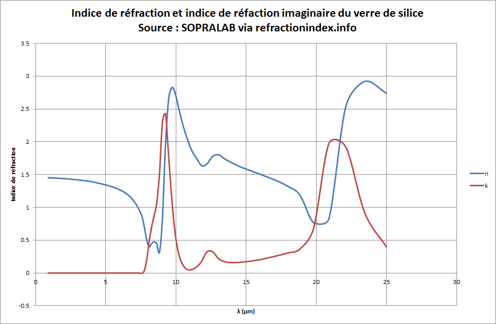 Real and imaginary refractive index of fused silica dependent on the wavelength of the light.